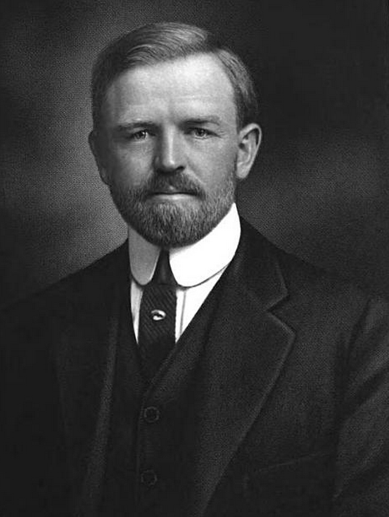 Photograph of Bill Morley